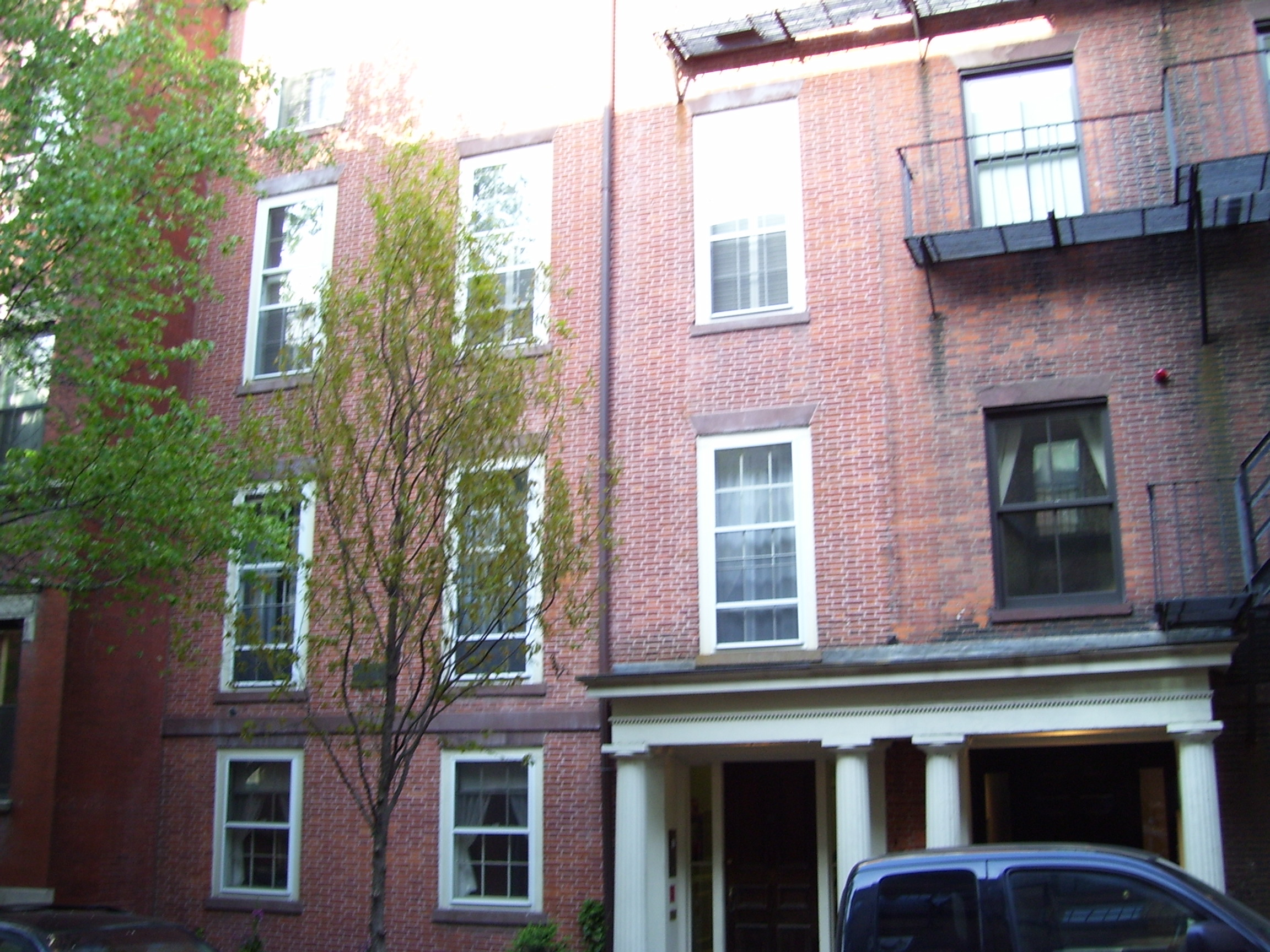 My 2008 photo of Charles Sumner house on 20 Hancock street in Boston, Ma.